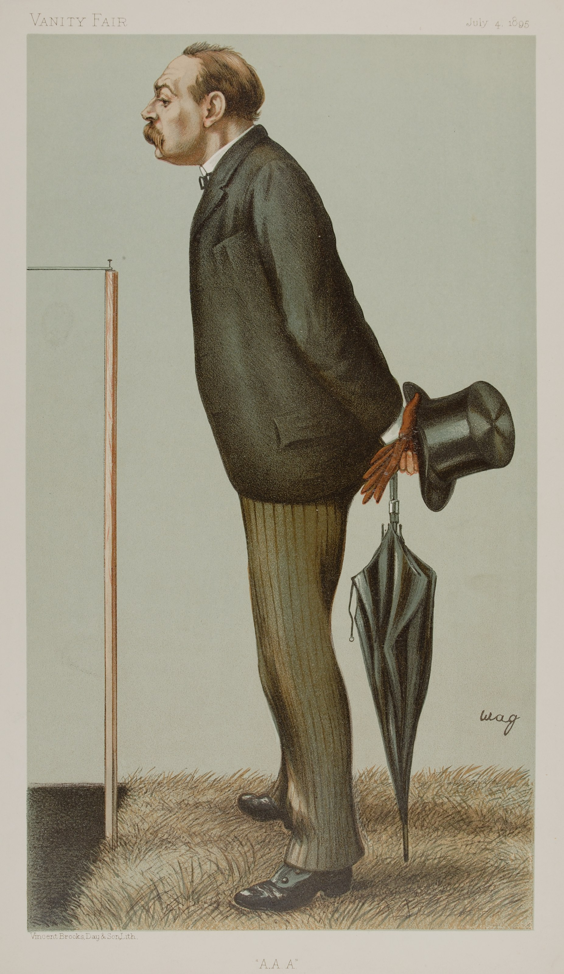 Men of the Day No. 623: Caricature of Montague Shearman (1857-1930). Caption read "A.A.A".